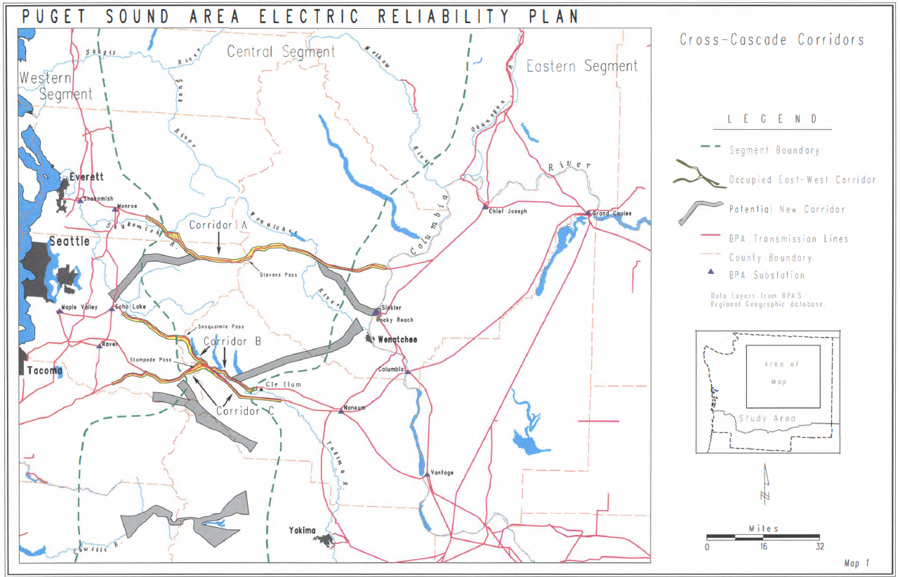 Cross-Cascade (mountains) high voltage AC electric paths to the Puget Sound region. Chart titled "Puget Sound Area Electric Reliability Plan".